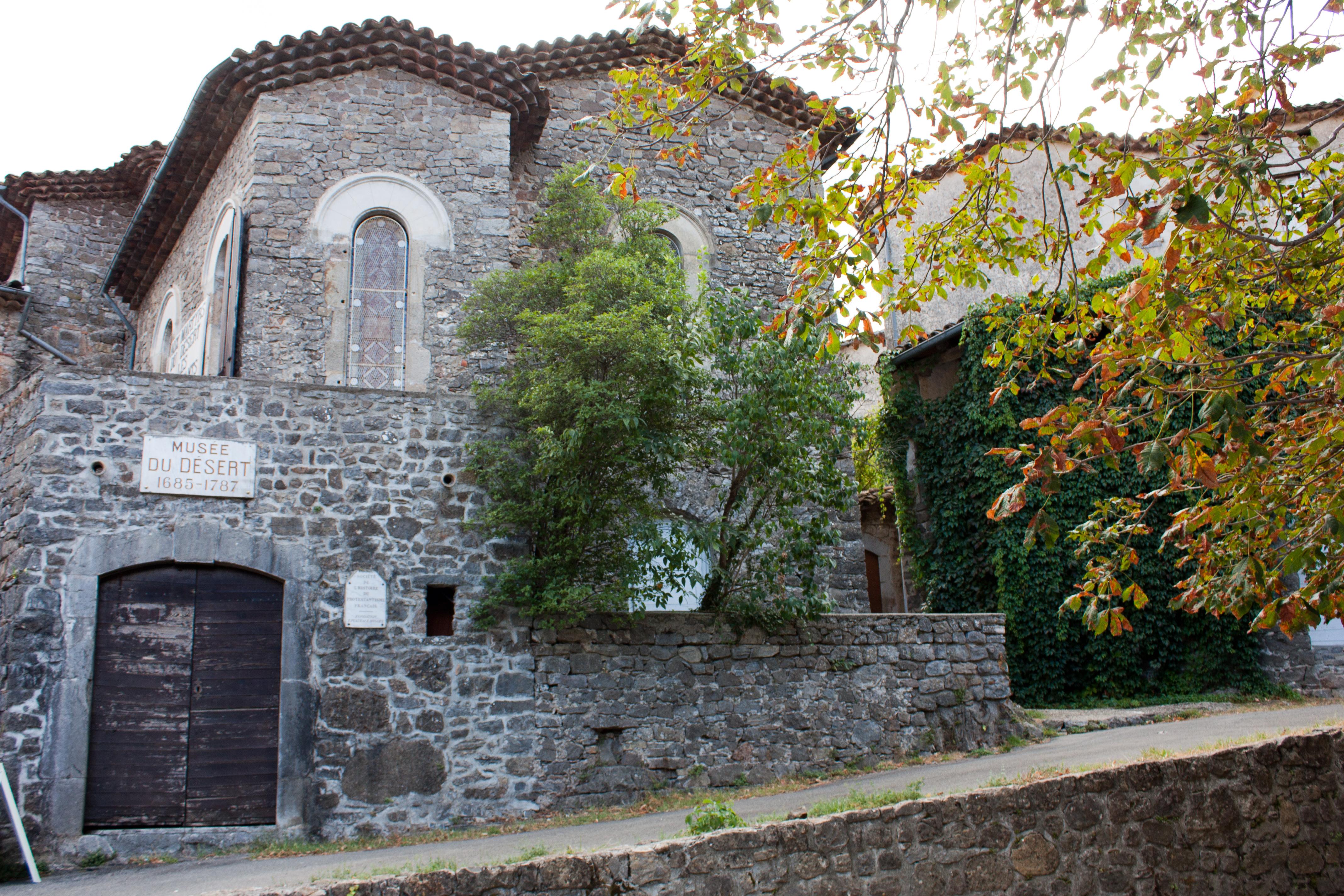 ‹Desert Museum›, at a place called Mas Soubeyran on the Mialet communne